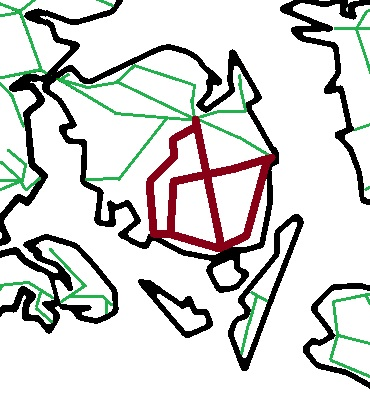 Map of railways on Funen in Denmark with the private railway Sydfyenske Jernbaner in brown.